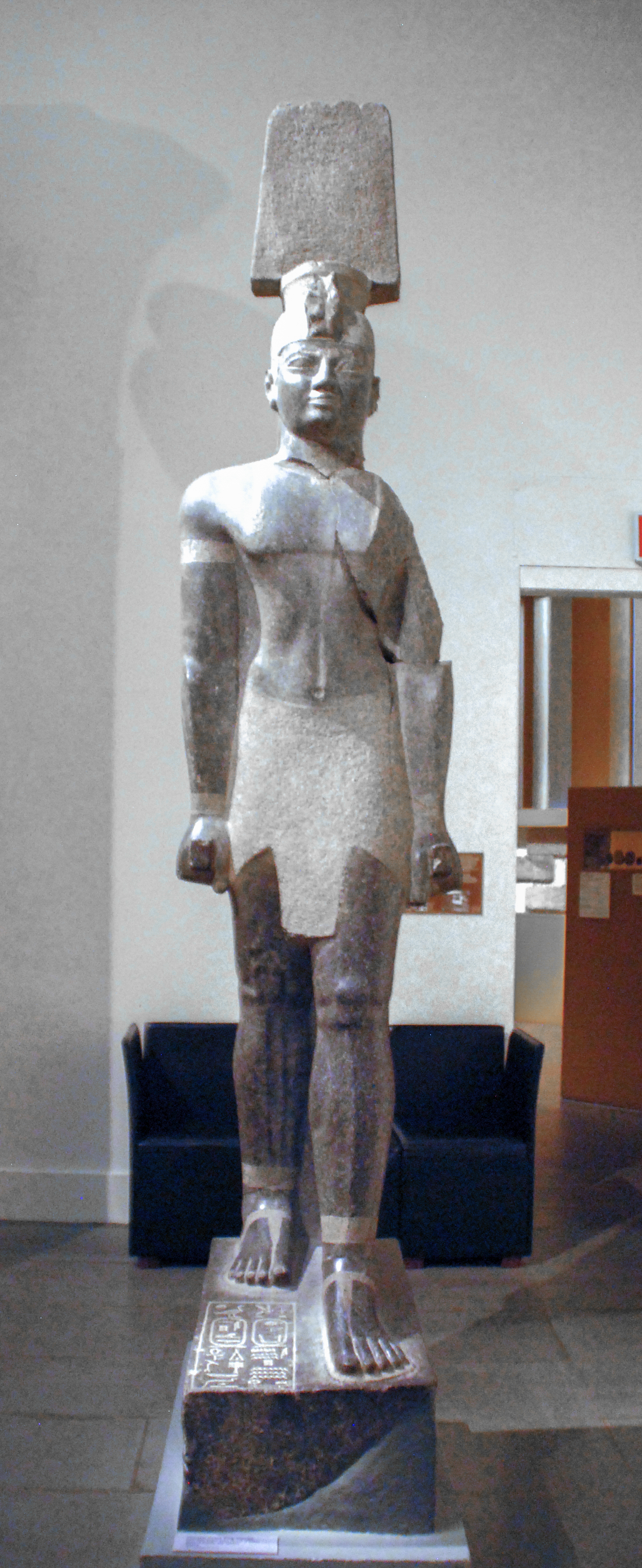 Colossal statue of King Aspelta; Nubian, Napatan Period, reign of Aspelta, 593–568 B.C.; Findspot: Gebel Barkal, Nubia, Sudan; Dimensions: Height: 332.1 cm (130 3/4 in.); Granite gneiss; Boston Museum of Fine Arts Accession Number 23.730.